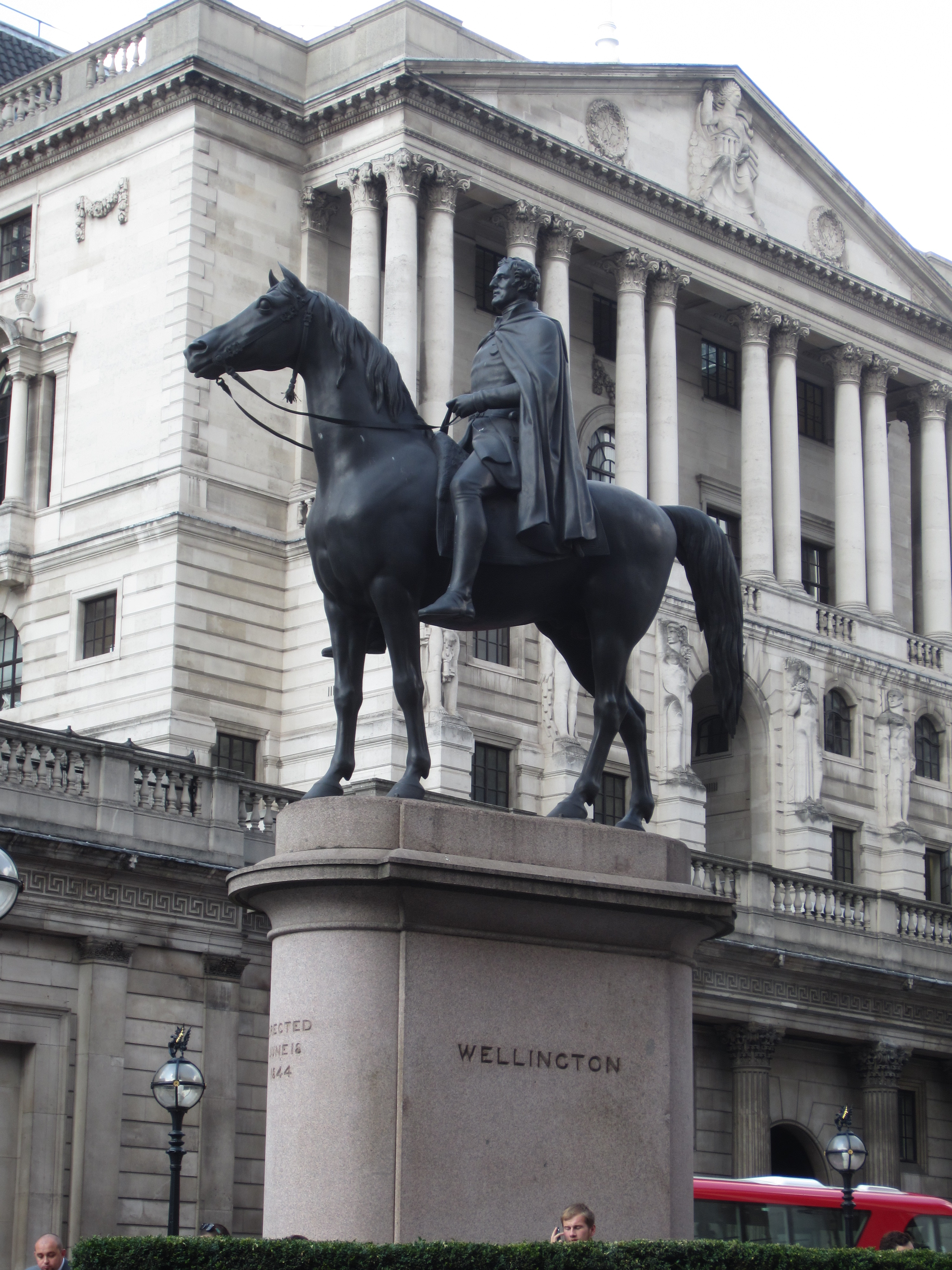 London, United Kingdom (August 2014)